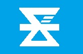 Flag of Nagaizumi Shizuoka